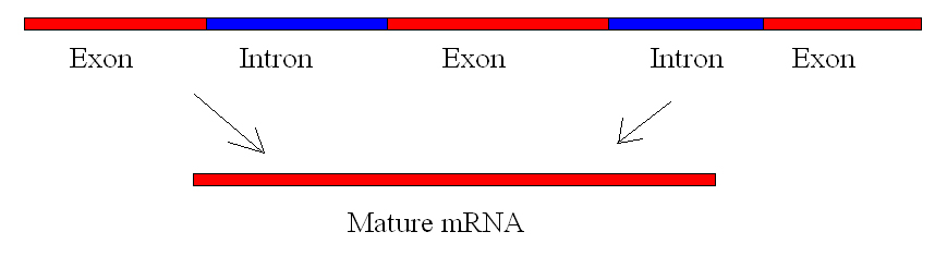 Simple illustration of introns and exons.